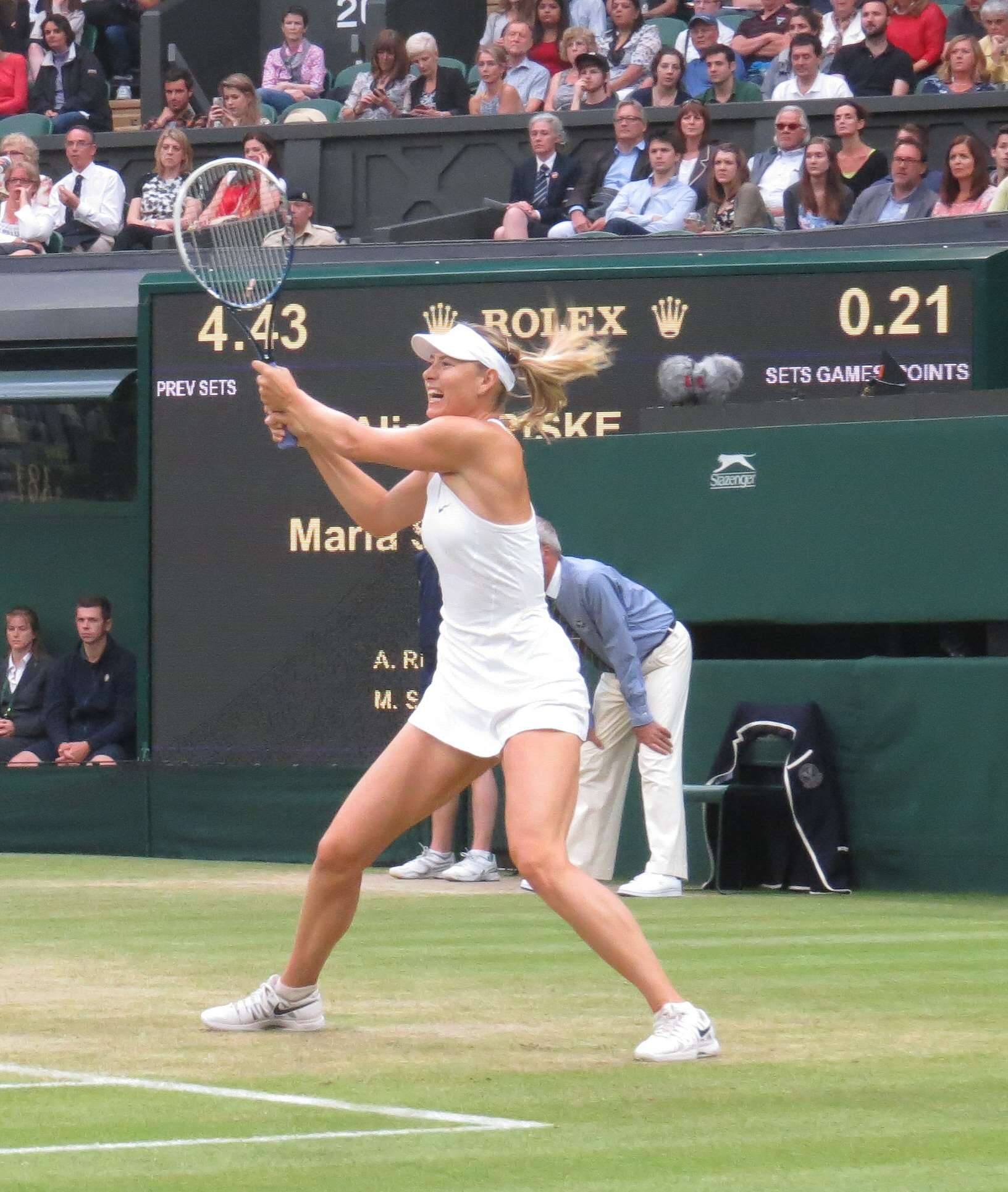 Maria Sharapova at Wimbledon 2014